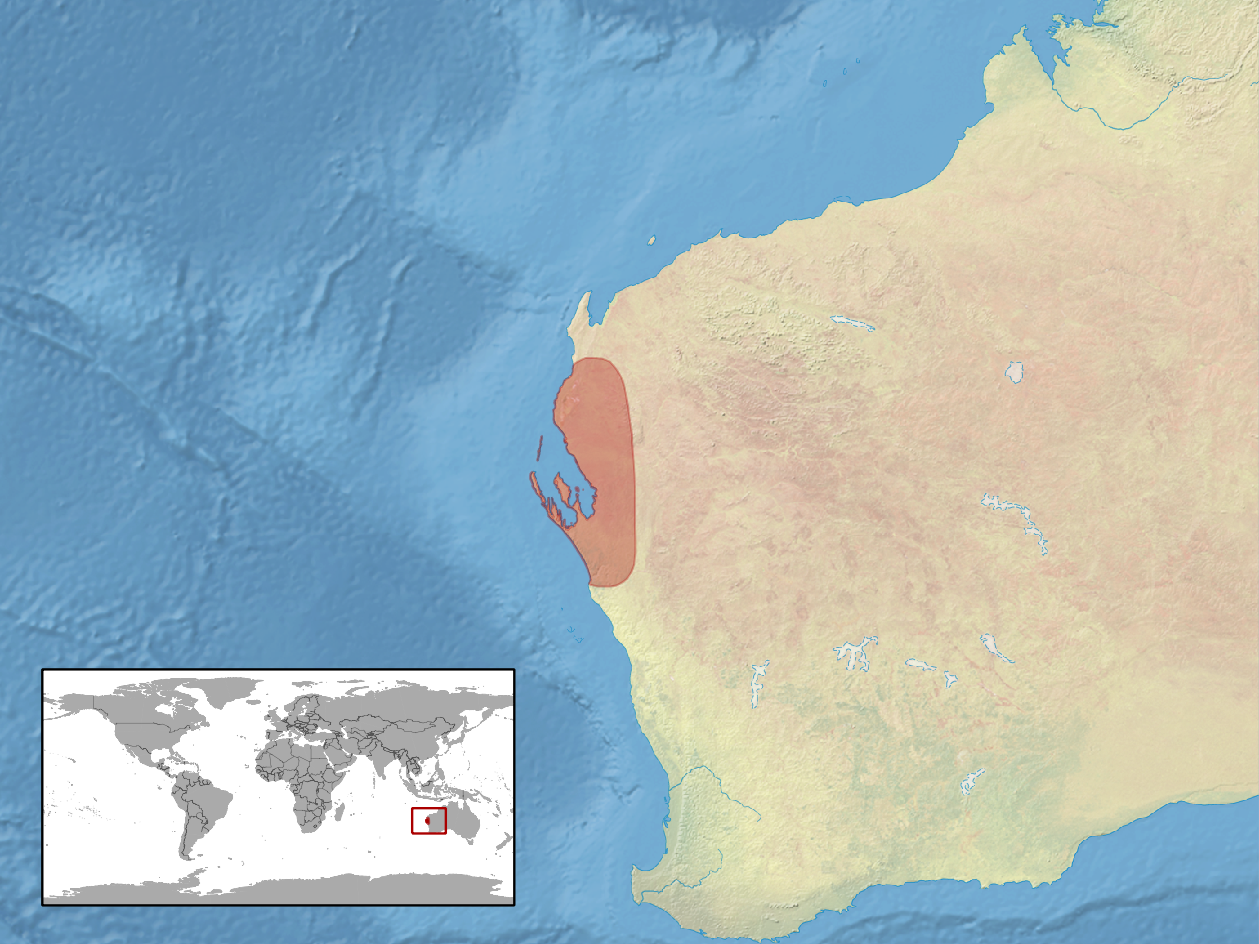 geographic distribution of Lerista connivens